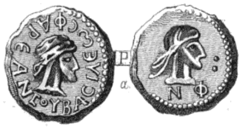 Denomination: Stater (?) Years: 253-254 AD Material: Р (Potin, Billon) Description: Tiberius Julius Pharsanzes (Greek: Τιβέριος Ἰούλιος Φαρσανζης), Bosporan Kingdom Localisation: State Hermitage (St.-Petersburg)